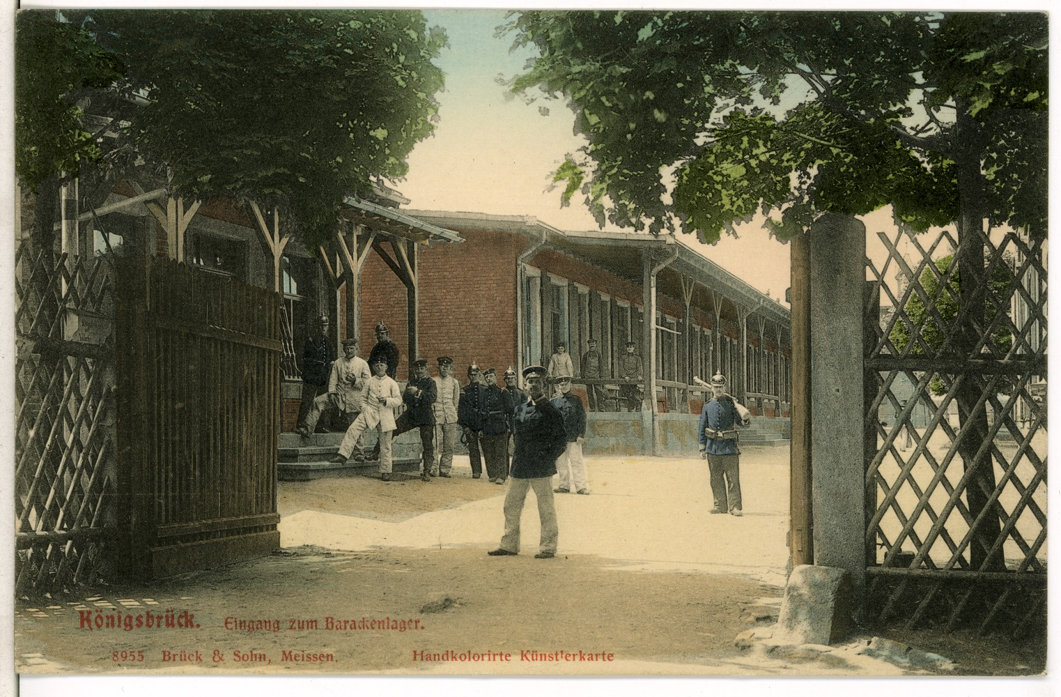 This postcard is from publisher Brück & Sohn in Meißen ( This postcard has a unique number 08955 and is available in a higher resolution at the publisher. This images was uploaded in a cooperation project between Wikipedians and the publisher.